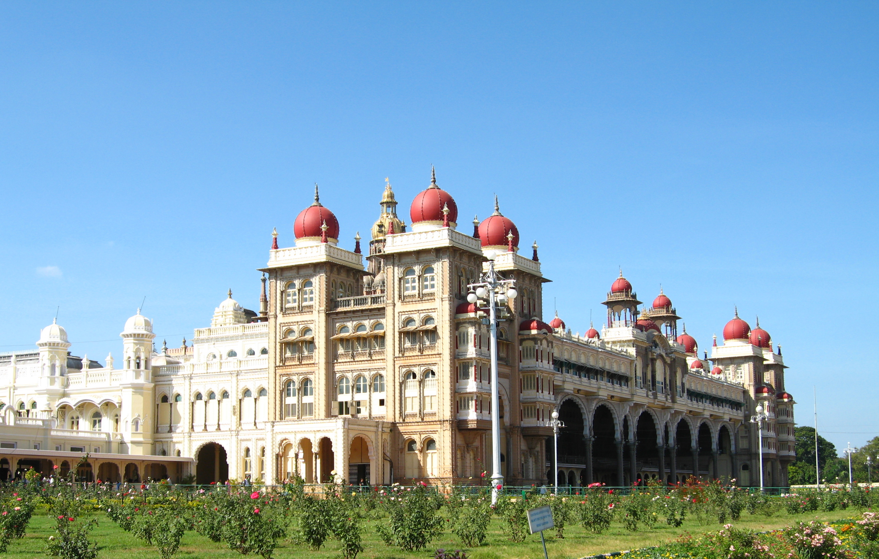 Ambavilas Palace (also known as Mysore Palace) in Mysore, India